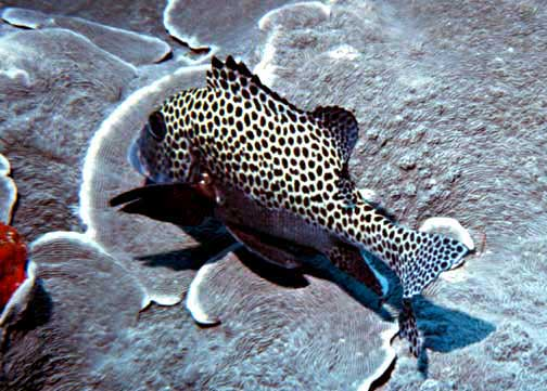 Plectorhinchus punctatissimus